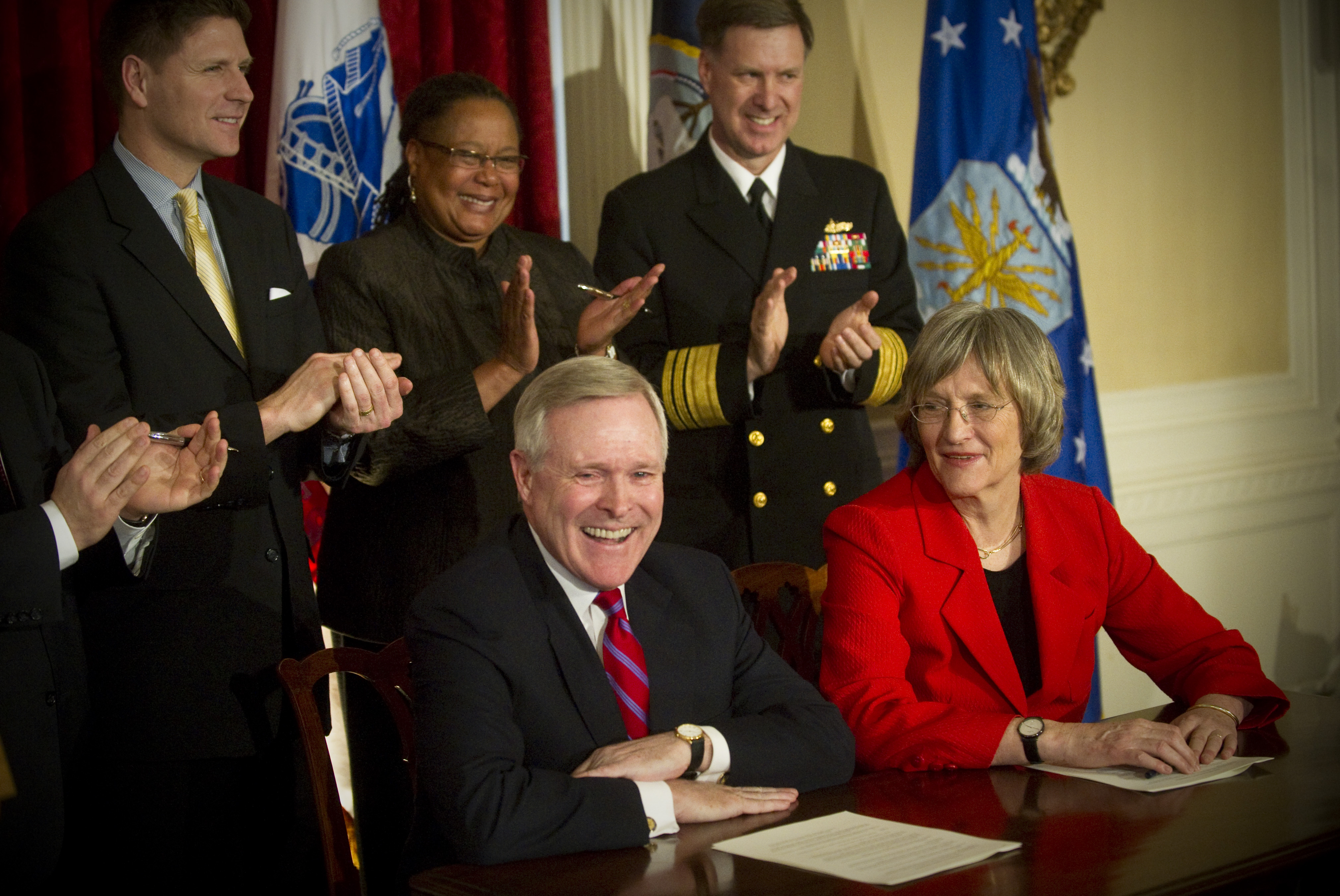 BOSTON (March 4, 2011) Secretary of the Navy (SECNAV) the Honorable Ray Mabus, left, and Harvard President Drew Faust sign a Memorandum of Agreement re-establishing the Naval ROTC on the Harvard campus for the first time in nearly 40 years. (U.S. Navy photo by Mass Communication Specialist 2nd Class Kevin S. O'Brien/Released)